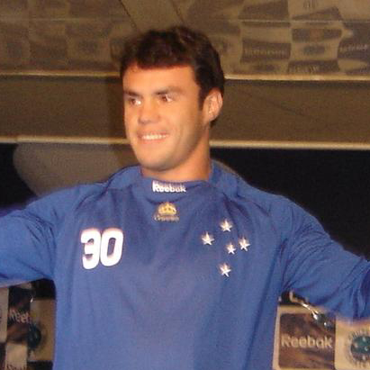 Brazilian football player Kléber de Souza Freitas while at Cruzeiro Esporte Clube.